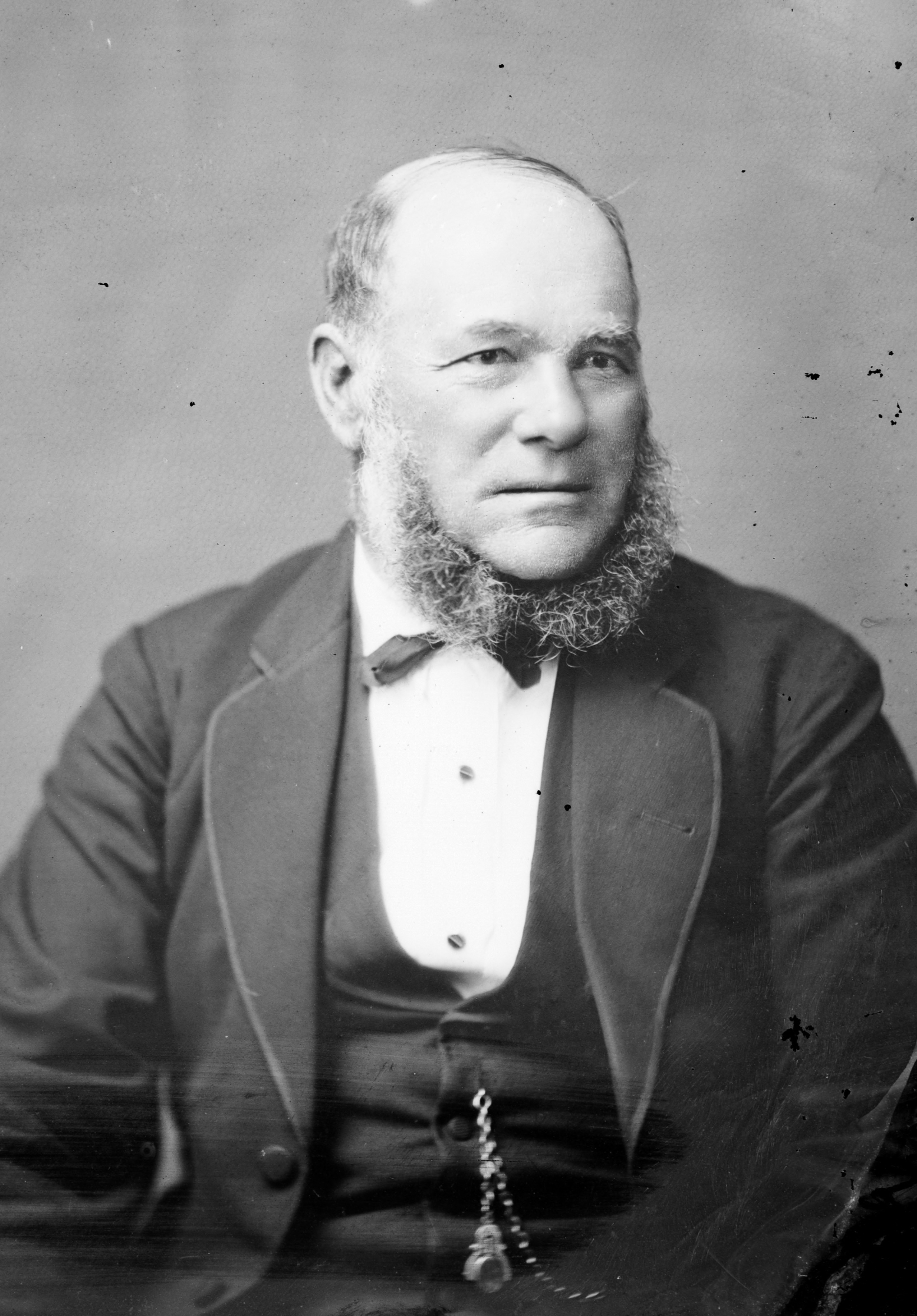 William Hogg Watt, photograph taken by the studio of William James Harding, Whanganui.